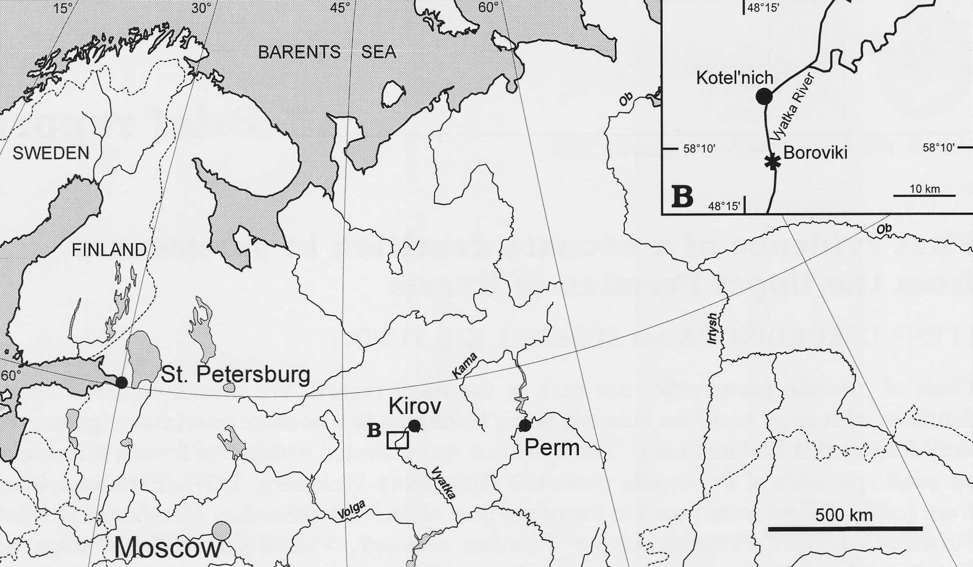 Map of the Kotel'nich area, Russia.